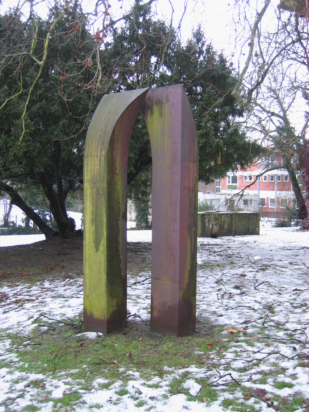 in Herford, District of Herford, North Rhine-Westphalia, Germany.